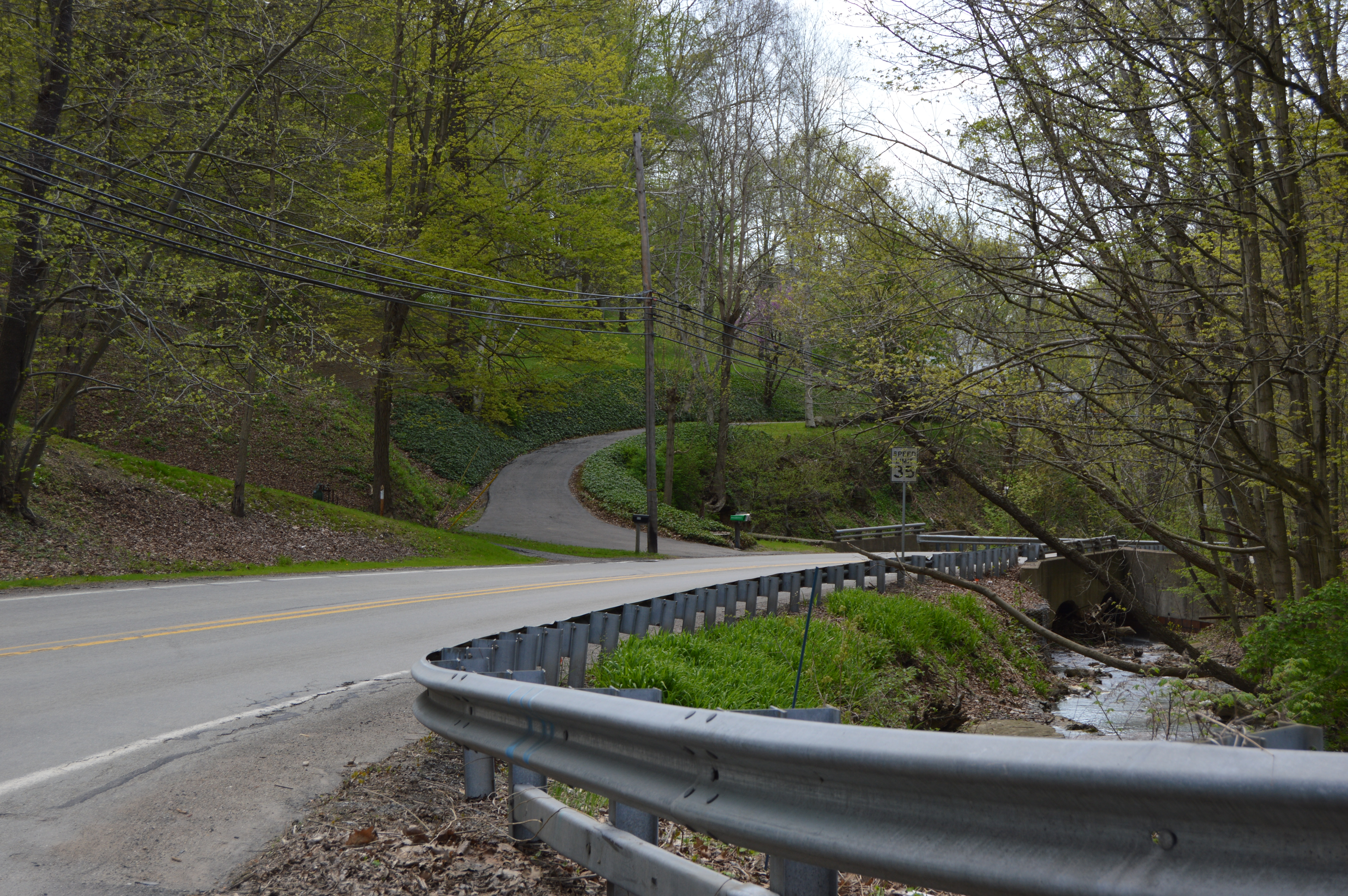 Looking west along Lovedale Road and Wylie Run from the Liberty Way intersection in Lincoln, Pennsylvania, United States.